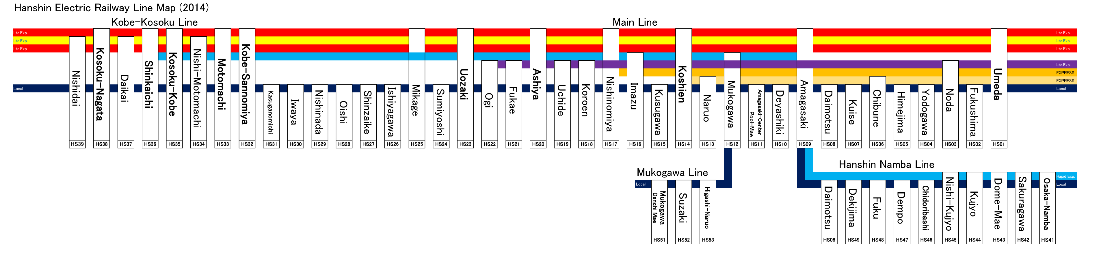 Hanshin Railway Map English Version